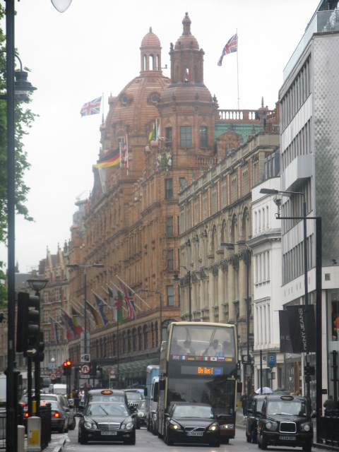 Harrods Department Store